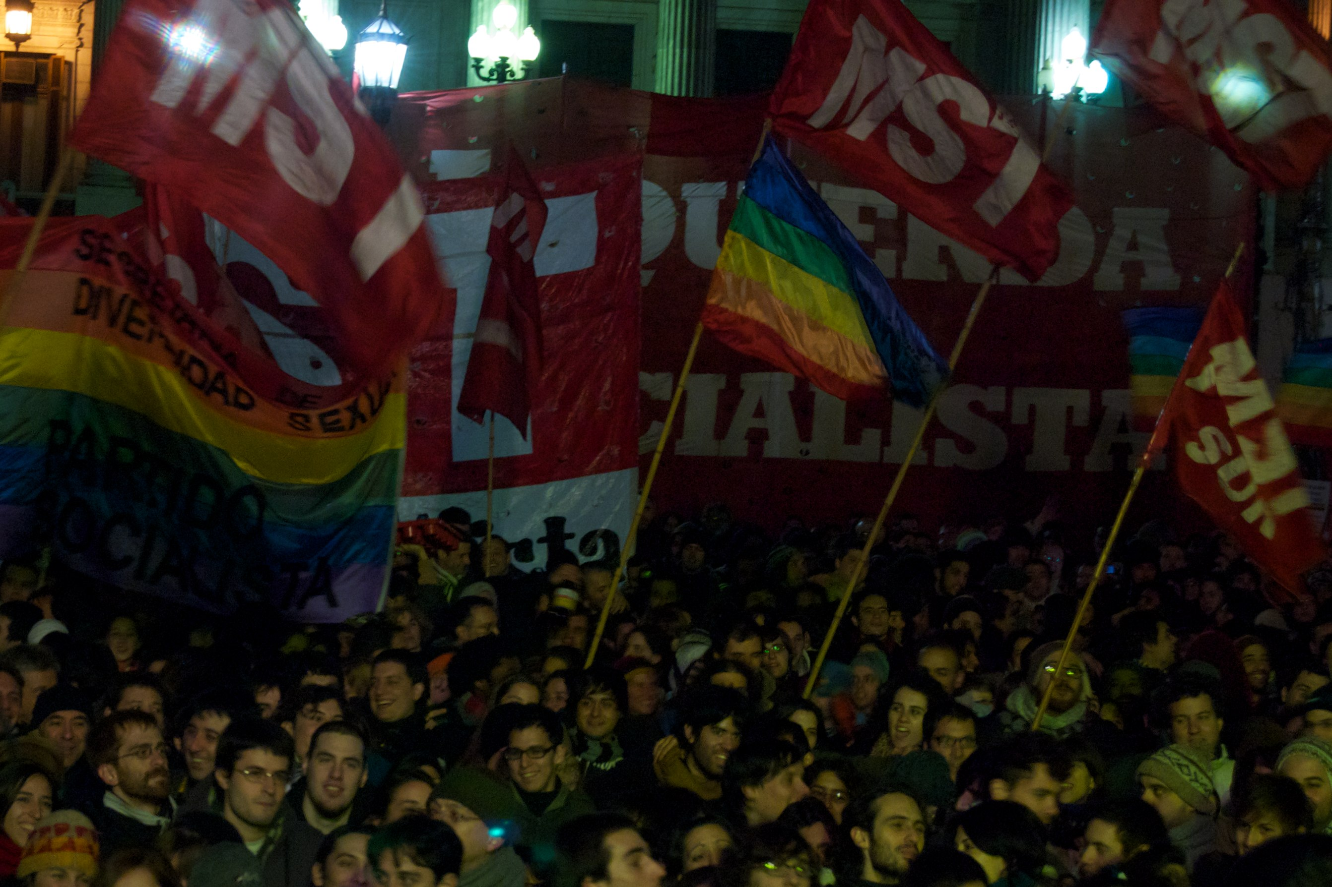 A crowd in front of the Argentine National Congress, waiting for the result of the debate on same-sex marriage in Argentina